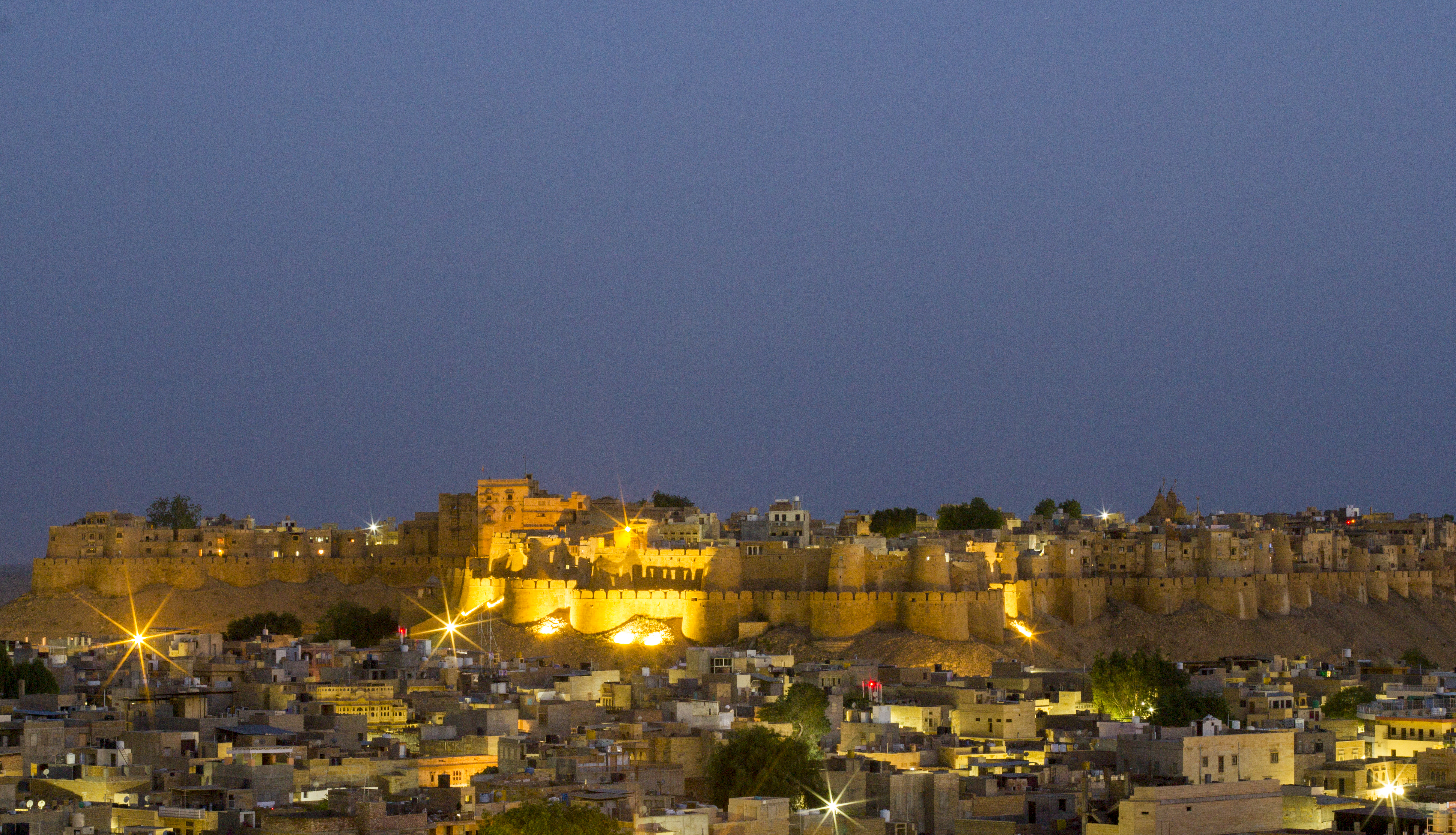 The Jaisalmer fort in Rajasthan.